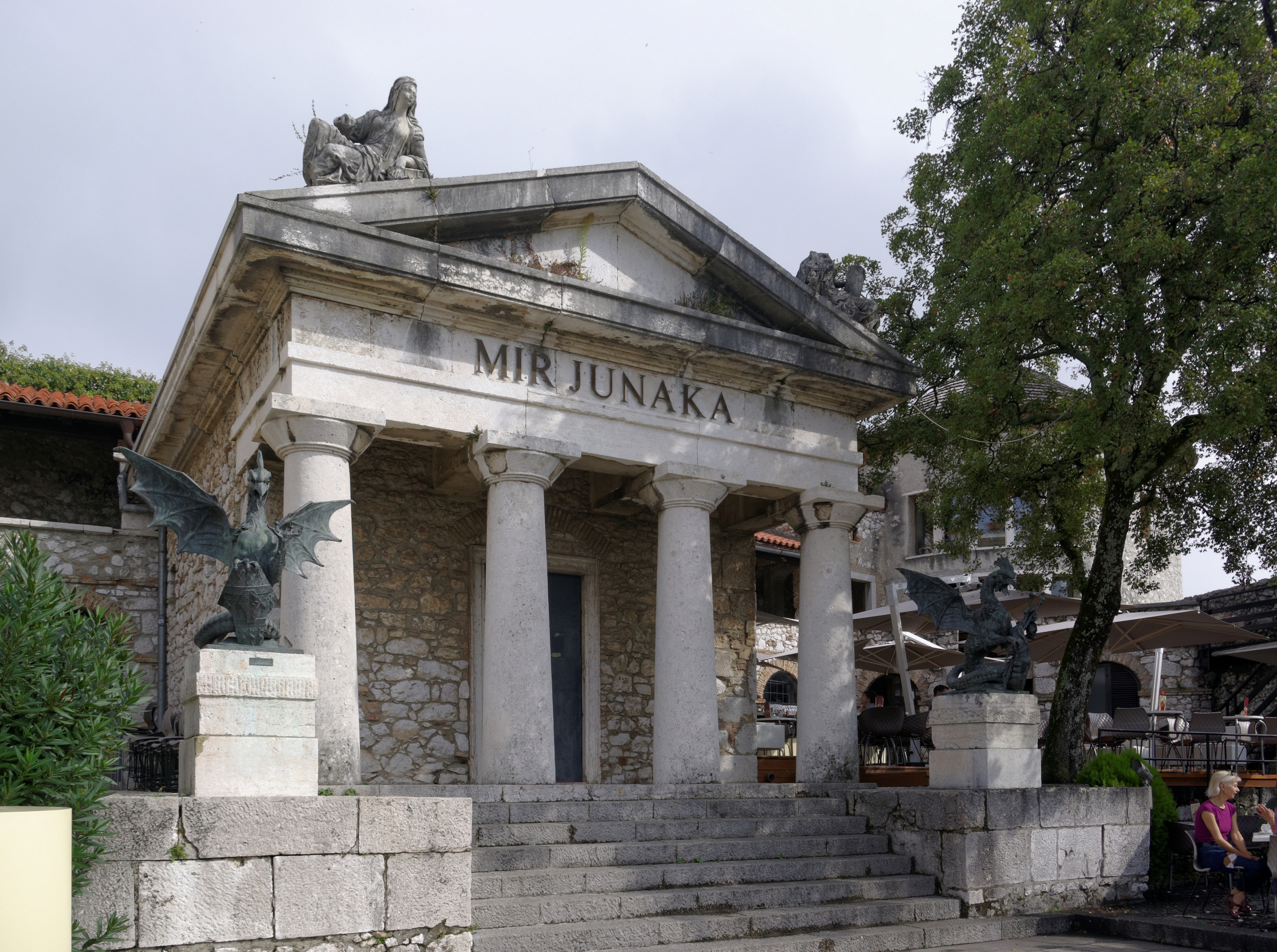 Croatia, Trsat, Castle